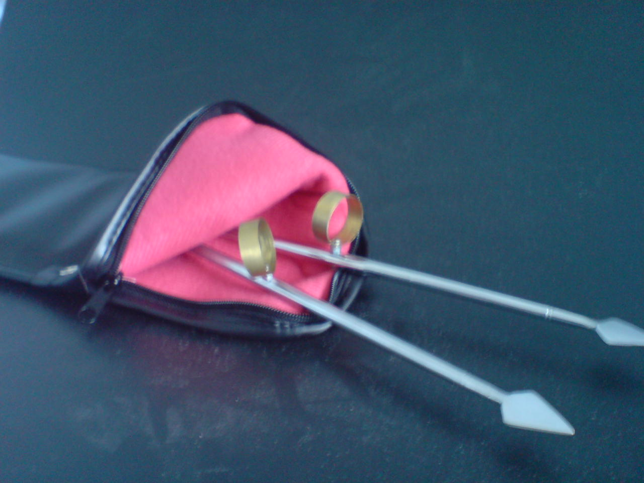 an image of a pair of emei piercers in a case